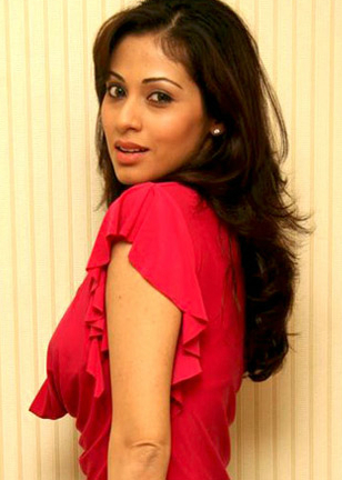 Sadha at Click film promotional photo shoot